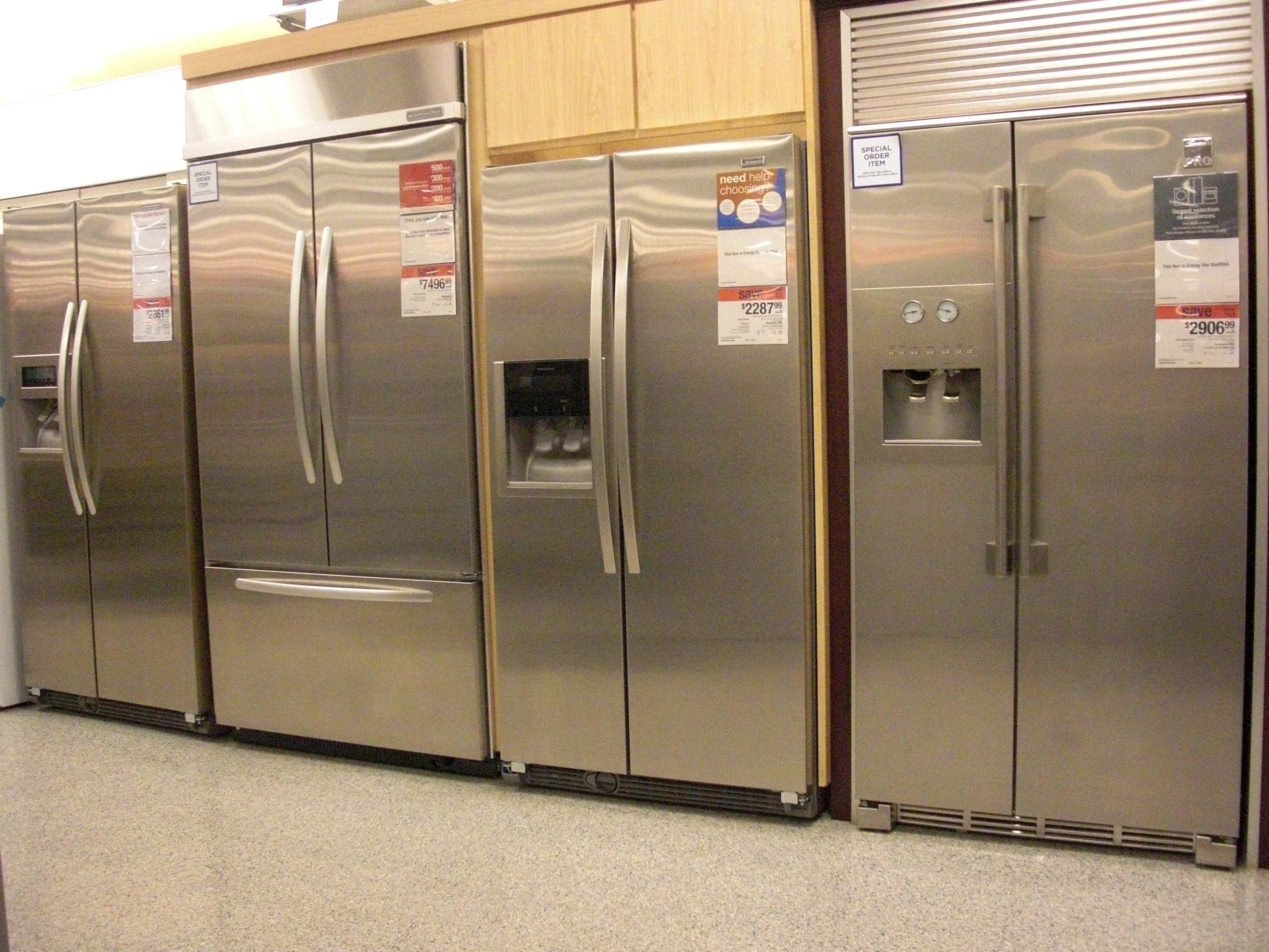 This is a picture of refrigerators, some of which go up to thousands of dollars. The function of a refrigerator can be performed for far cheaper.